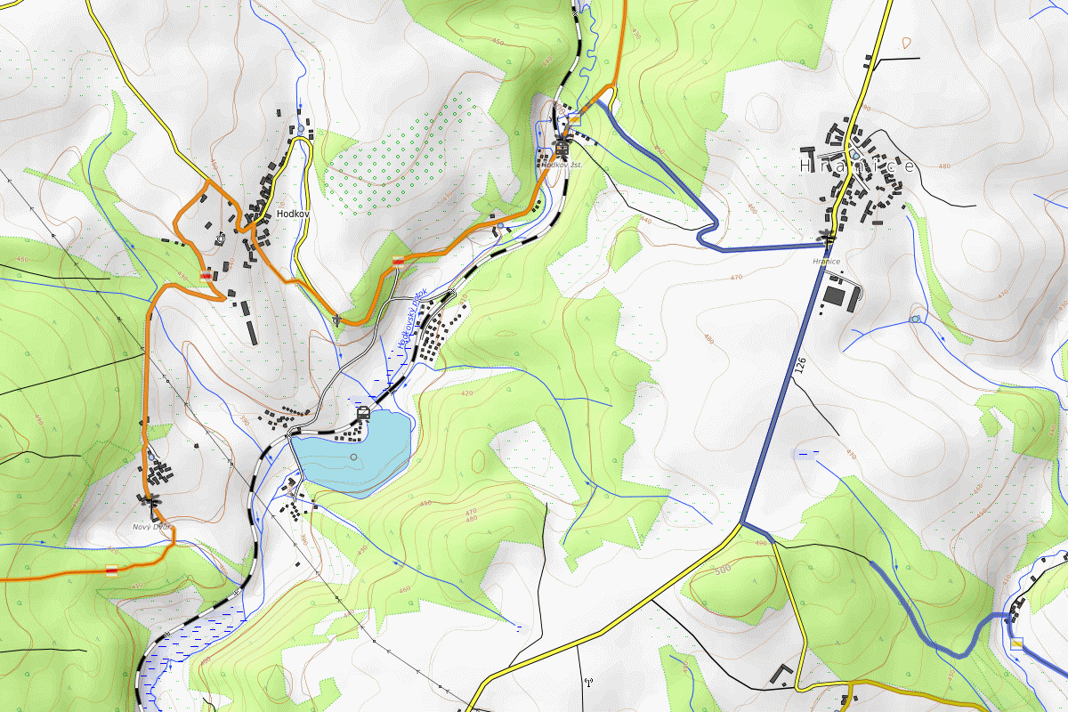 Panský Pond (Hodkov) 2. Schema of Surroundings. Kutná Hora District, the Czech Republic.